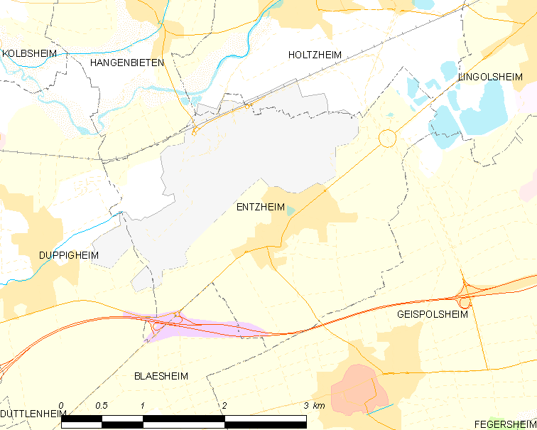 Map of French municipality